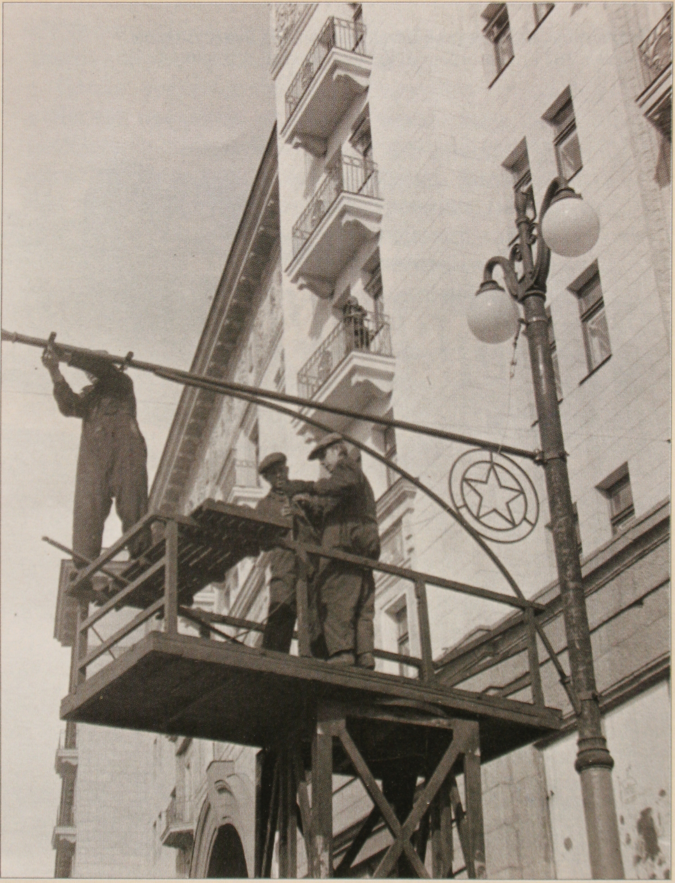 Tverskaya Street in Moscow, 1934.